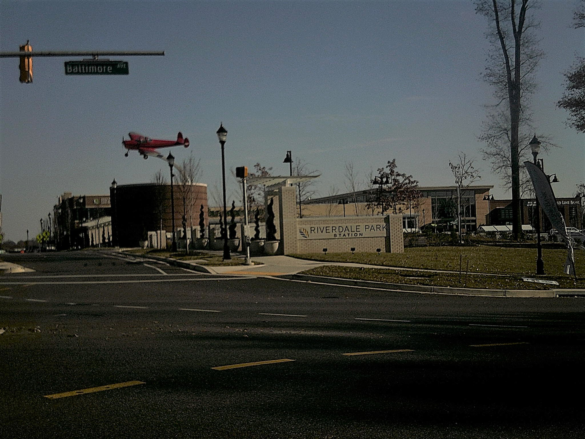 Image of Riverdale Park Station, a mixed-use development in Riverdale Park, MD